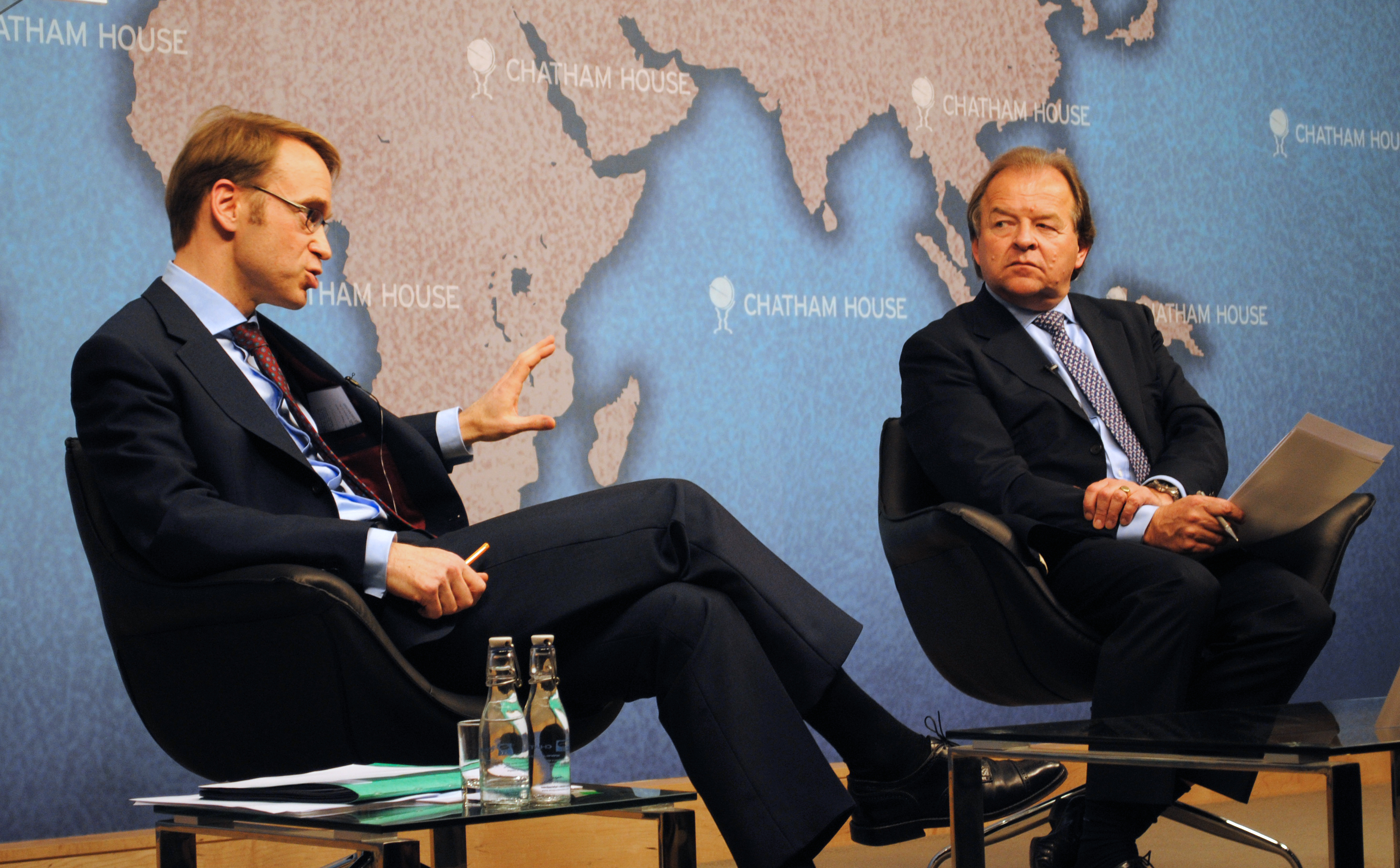 Rebalancing Europe, 28 March 2012